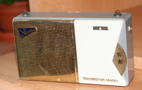 Transistor pocket radio "Sternchen" ("starlet") Sonneberg GDR (East Germany) 1960